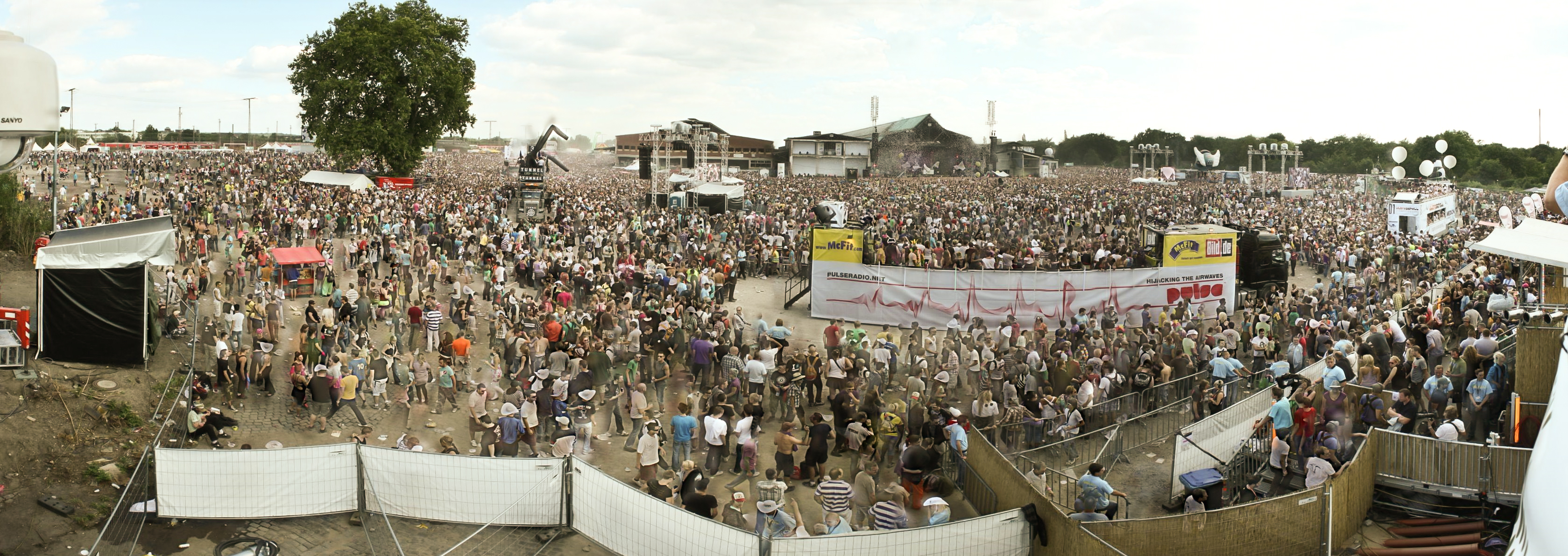 Loveparade 2010